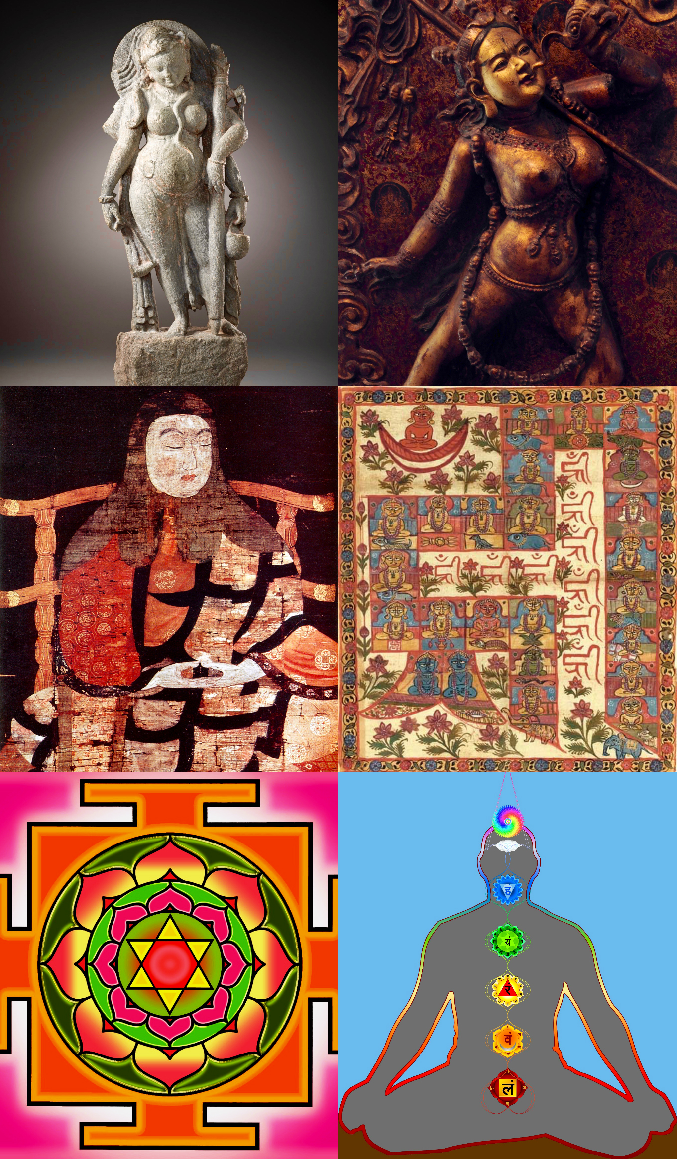 This is a derivative work on the following six images available on wikimedia under creative commons license: File:A Tantric Goddess LACMA M.82.42.1 (1 of 5).jpg File:Sarva Buddha Dakini 01.jpg File:最澄像 一乗寺蔵 平安時代.jpg File:The 24 Tirthankaras forming the tantric meditative syllable Hrim.jpg (This is a photograph of a 2D art published c. 1800 CE per University of Columbia source. Wikimedia Commons PD-Art guidelines apply.) File:Bhuvaneswari yantra color.jpg File:Yoga all chakras and chakraserpent.png